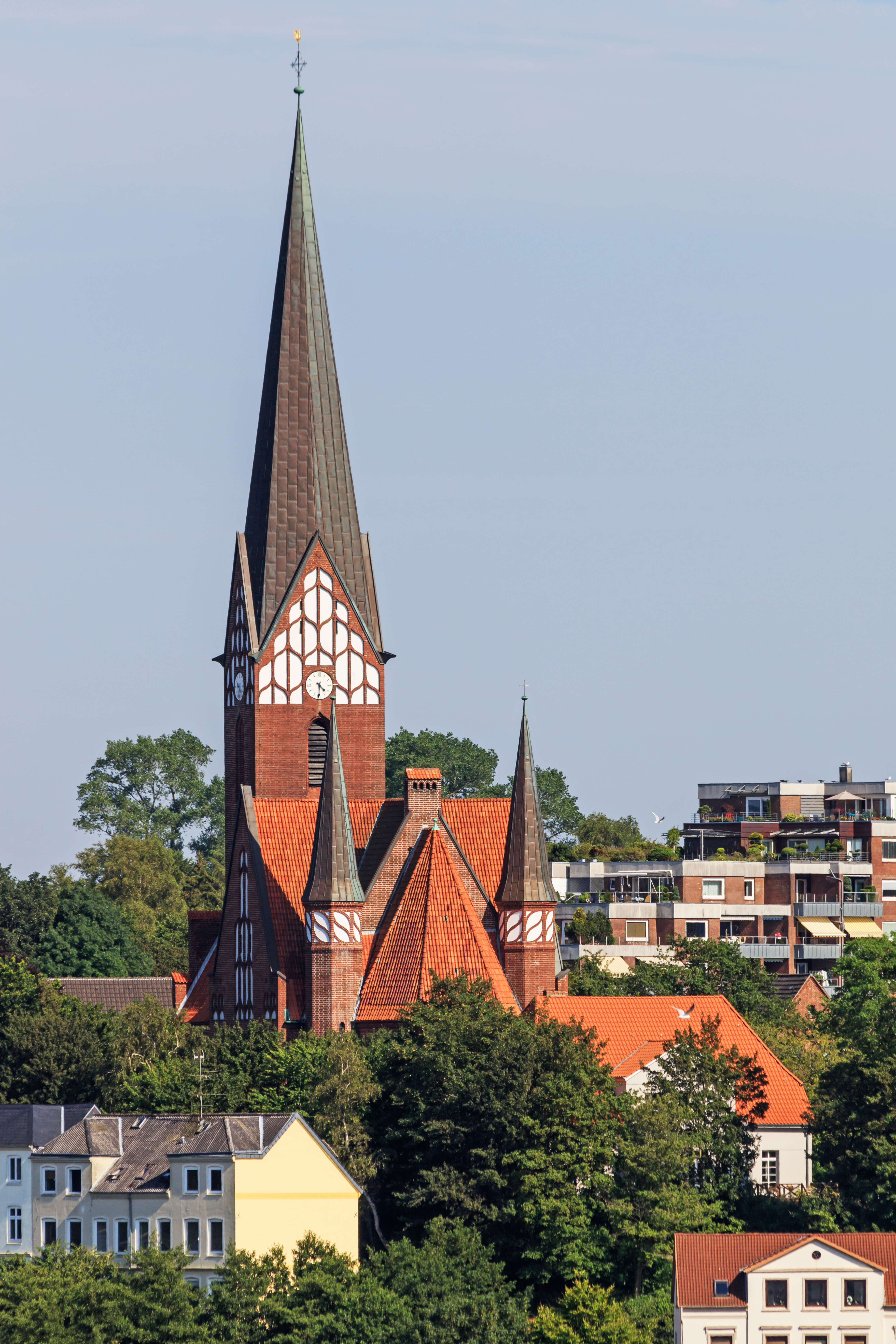 View from Rummelgang in Flensburg, Germany